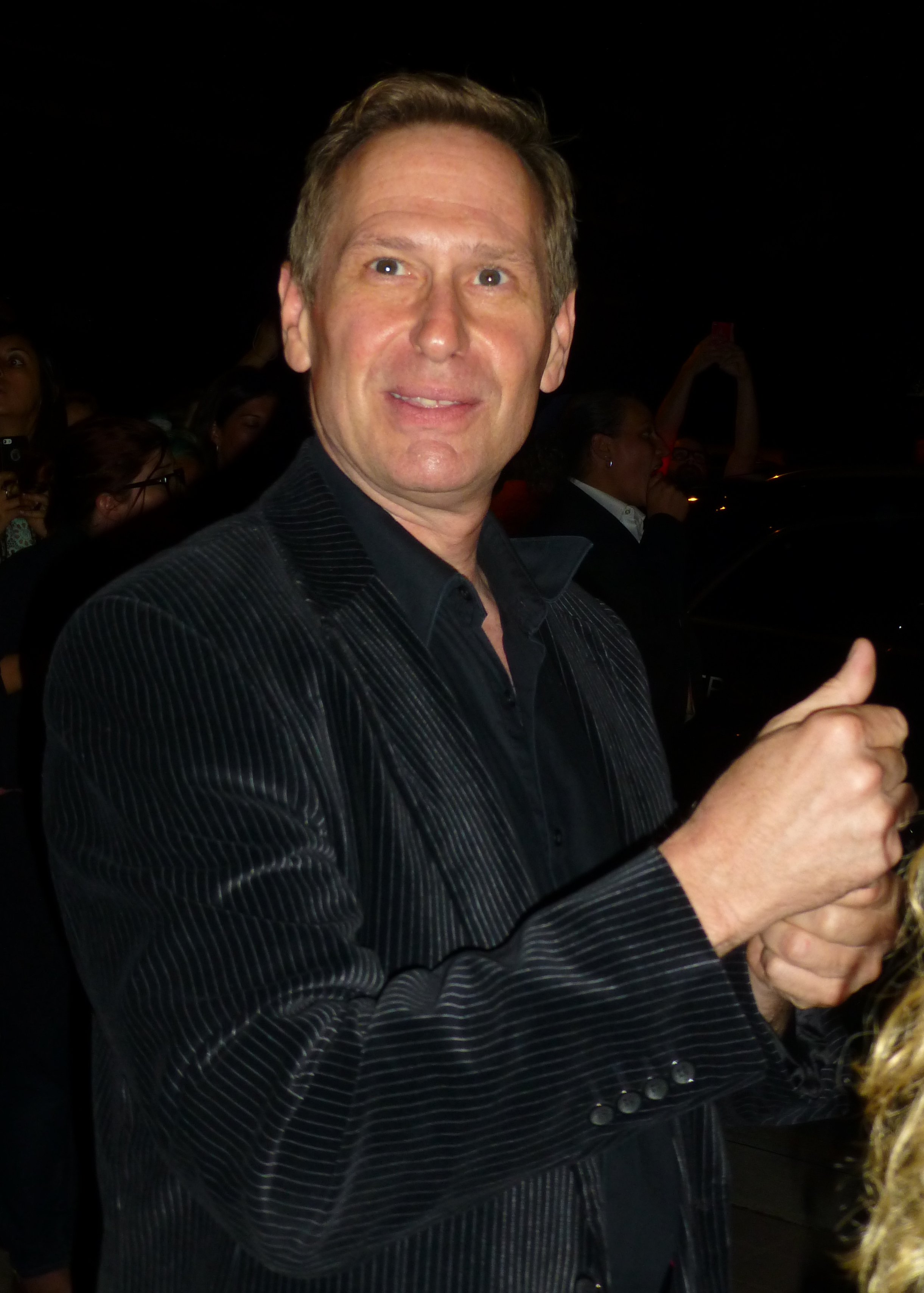 Scott Thompson at the Reitman Read for Boogie Nights, Toronto Film Festival 2013